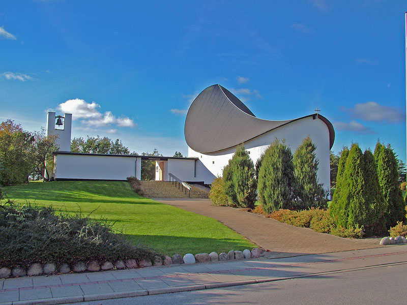 Church of Strandby (Strandby Kirke) danish church situated in the northern part of Jutland. Photo taken by Jørgen Larsen, 2005-10-22.